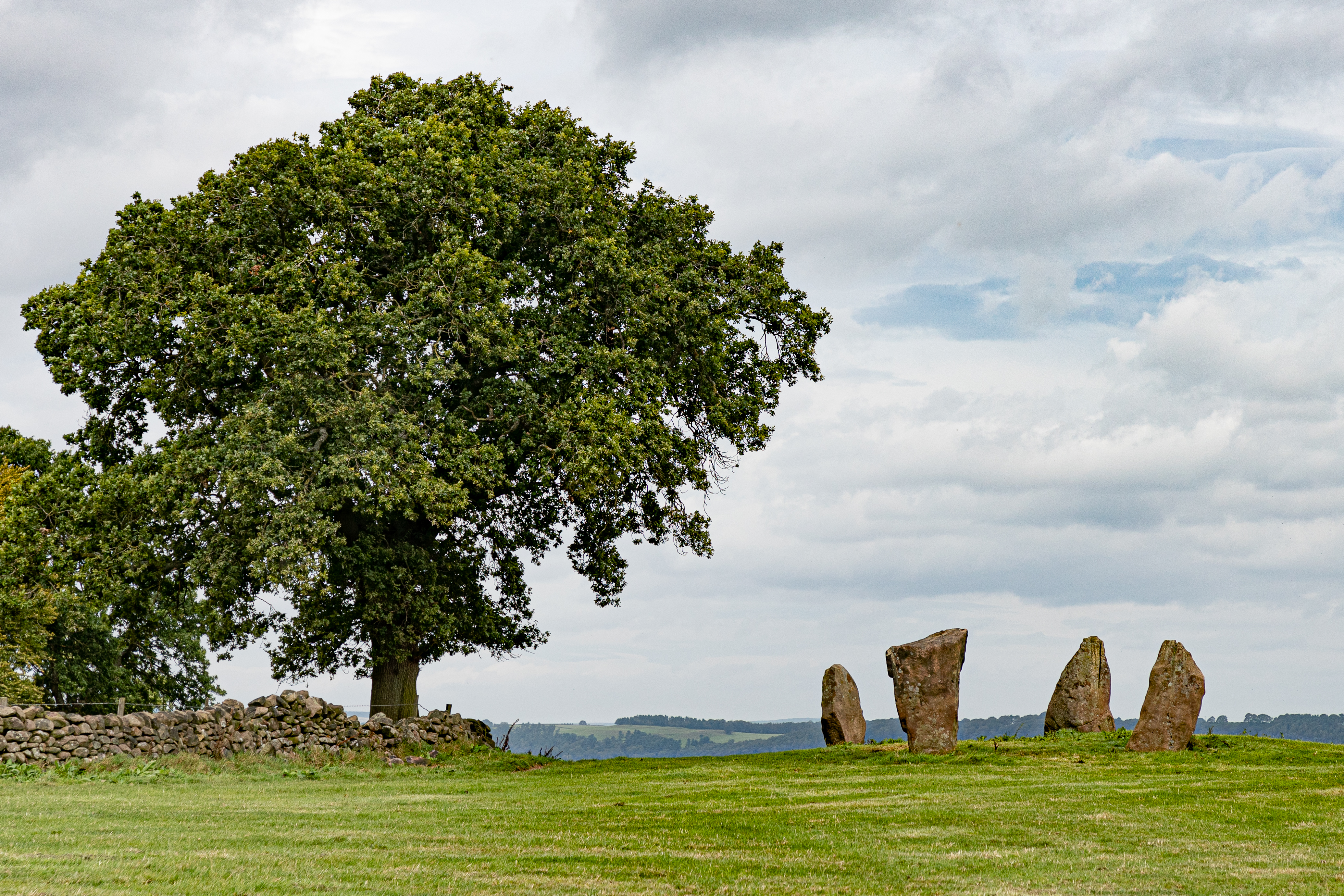 Nine Stones Close, Derbyshire, showing the four stones that remain Wikidata has entry Q14949375 with data related to this item.